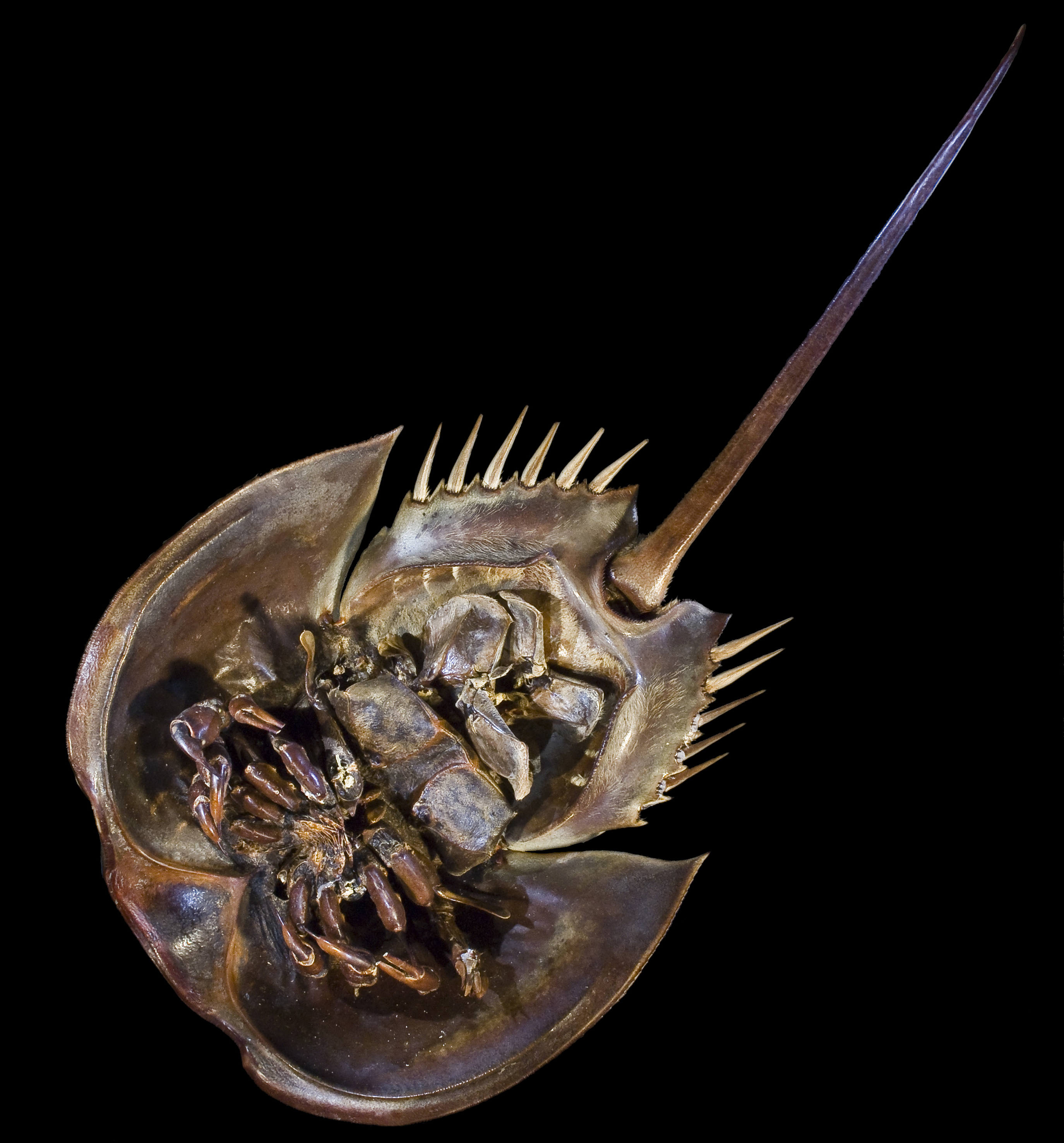 Horseshoe crab - 55 cm (Ventral view) - East Coast of the United States - A studio shot